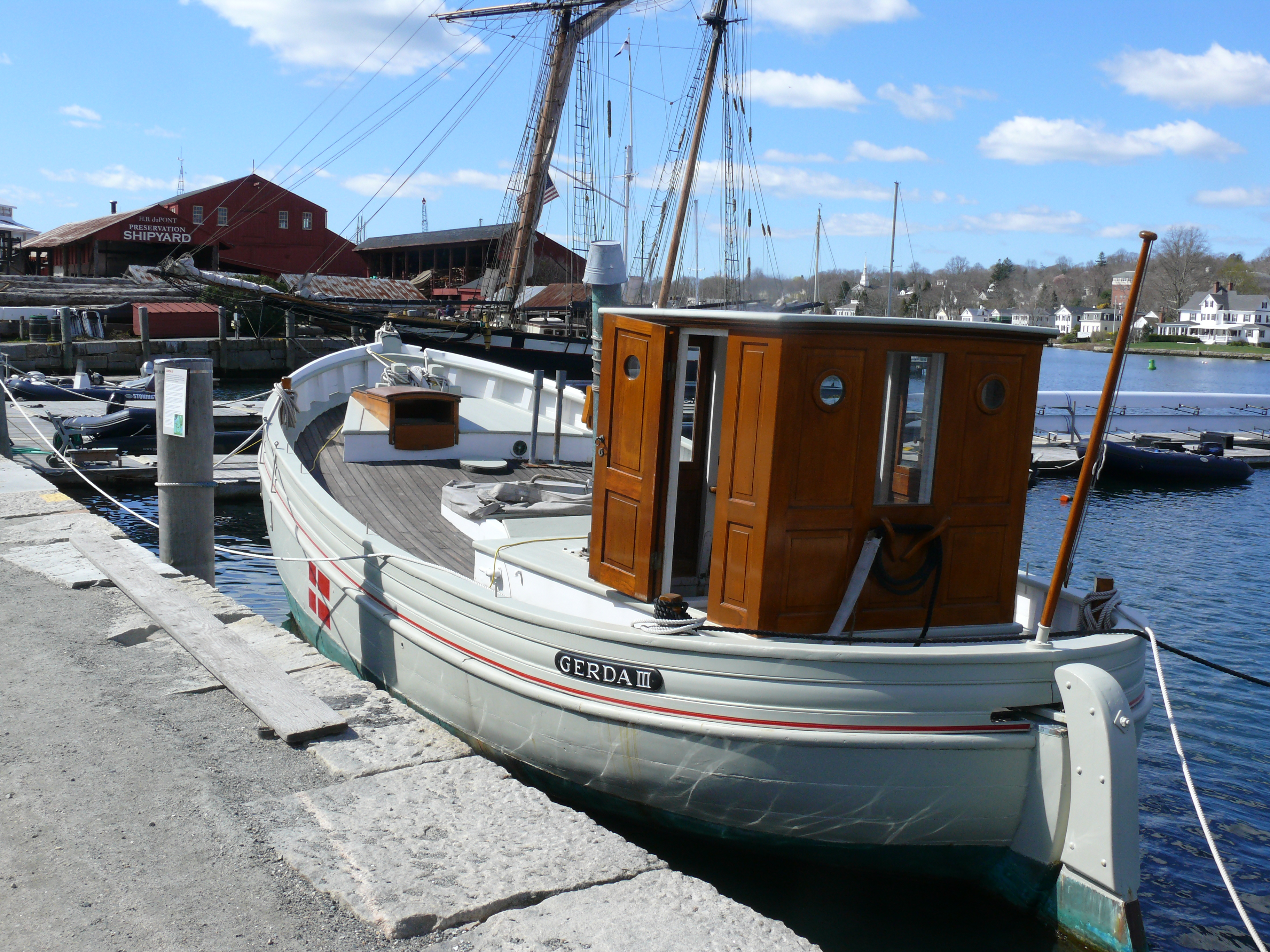 Gerda III was built in 1928 for the Danish Lighthouse and Buoy Service. From October 1943 Gerda II was used to ferry Jewish refugees from German occupied Denmark to neutral Sweden. With a group of some ten refugees on board the vessel set out for her official lighthouse duties, but detoured to the Swedish coast. The little ship and her crew (Skipper Otto Andersen, John Hansen, Gerhardt Steffensen and Einar Tønnesen), ferried some 300 Jews to safety.